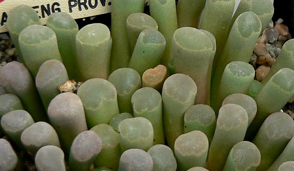 Photo of Frithia pulchra at the University of California Botanical Garden